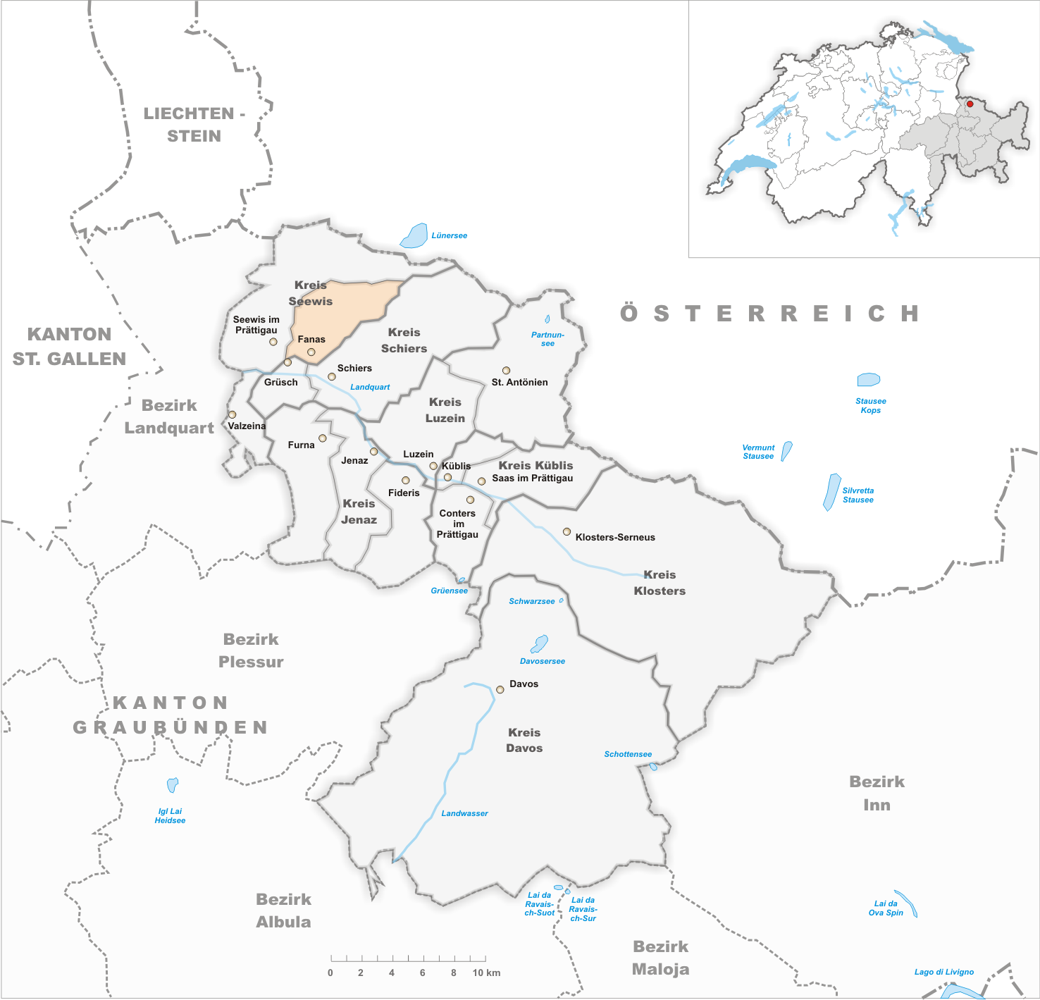 Municipality Fanas